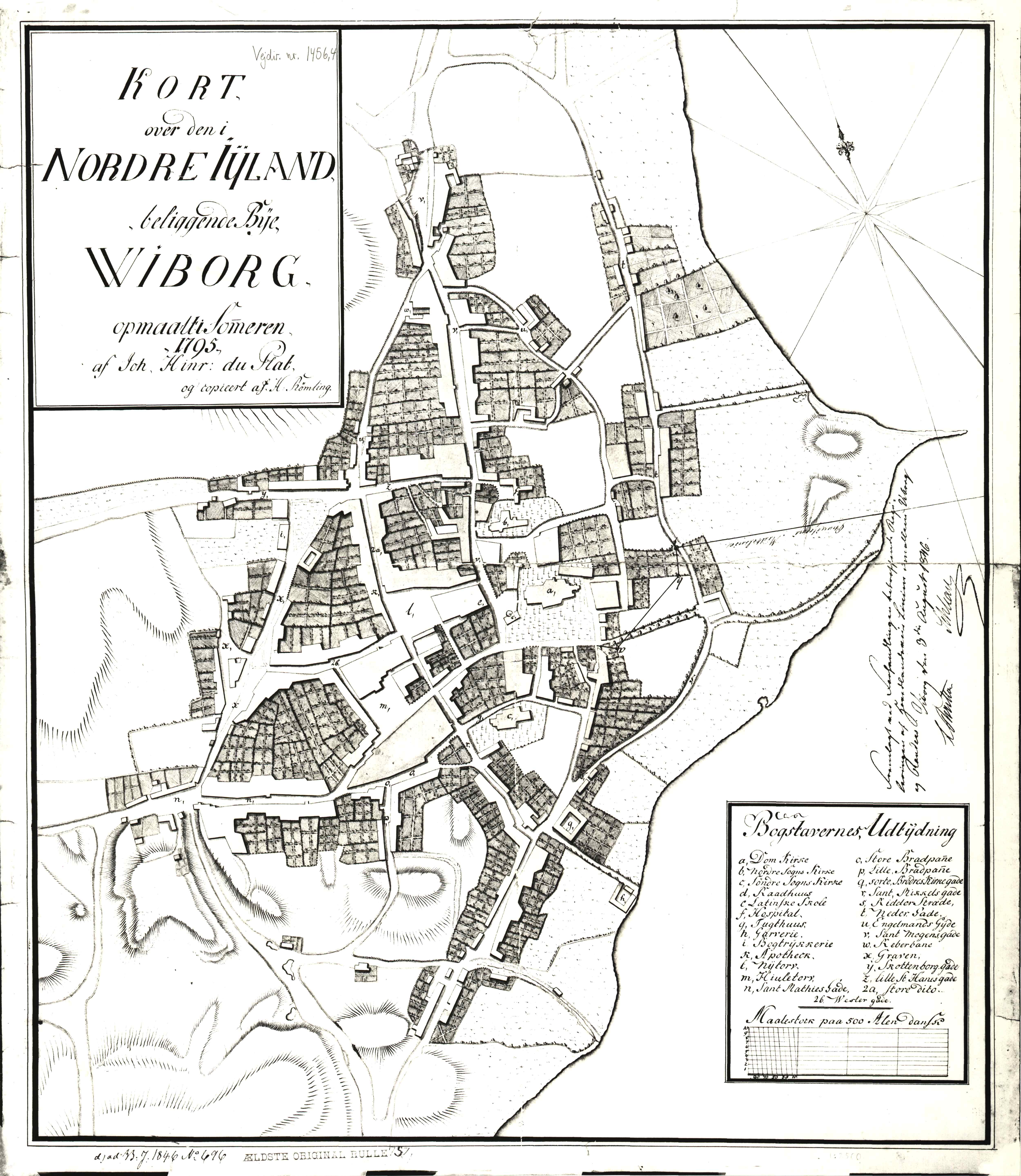 Map of Viborg 1795.